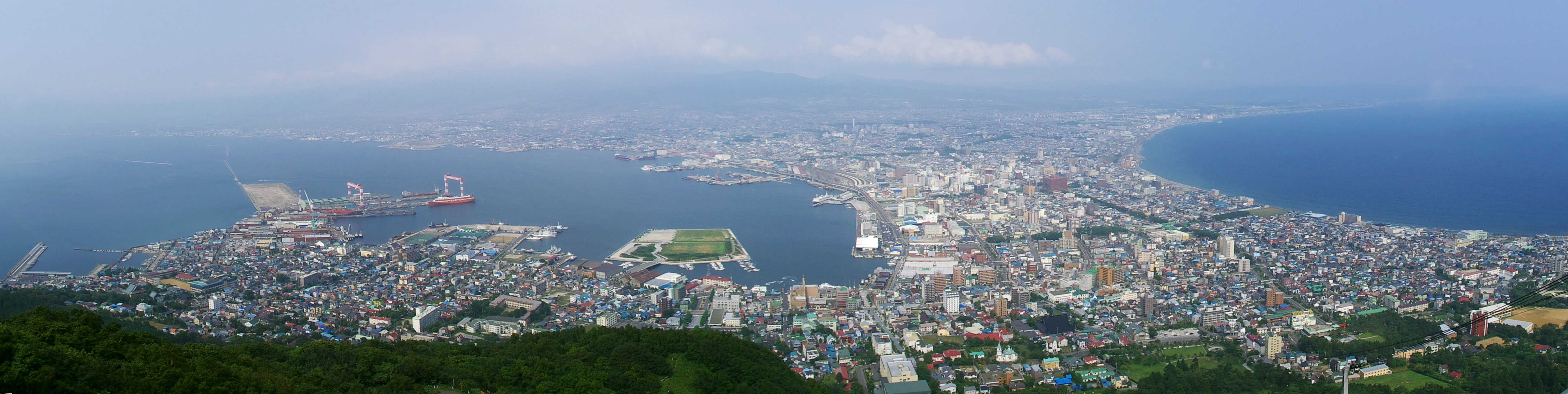 Photograph of the panoramic cityscape of Hakodate viewed from the mountain-top observatory of Mt. Hakodate in Hakodate, Hokkaido, Japan.